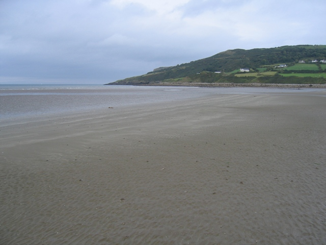 View northeast across Red Wharf Bay Looking across Red Wharf Bay towards the headland at the east end of the bay. The black line of the remains of the disused 'Fish Weir' is on the right of the photo.